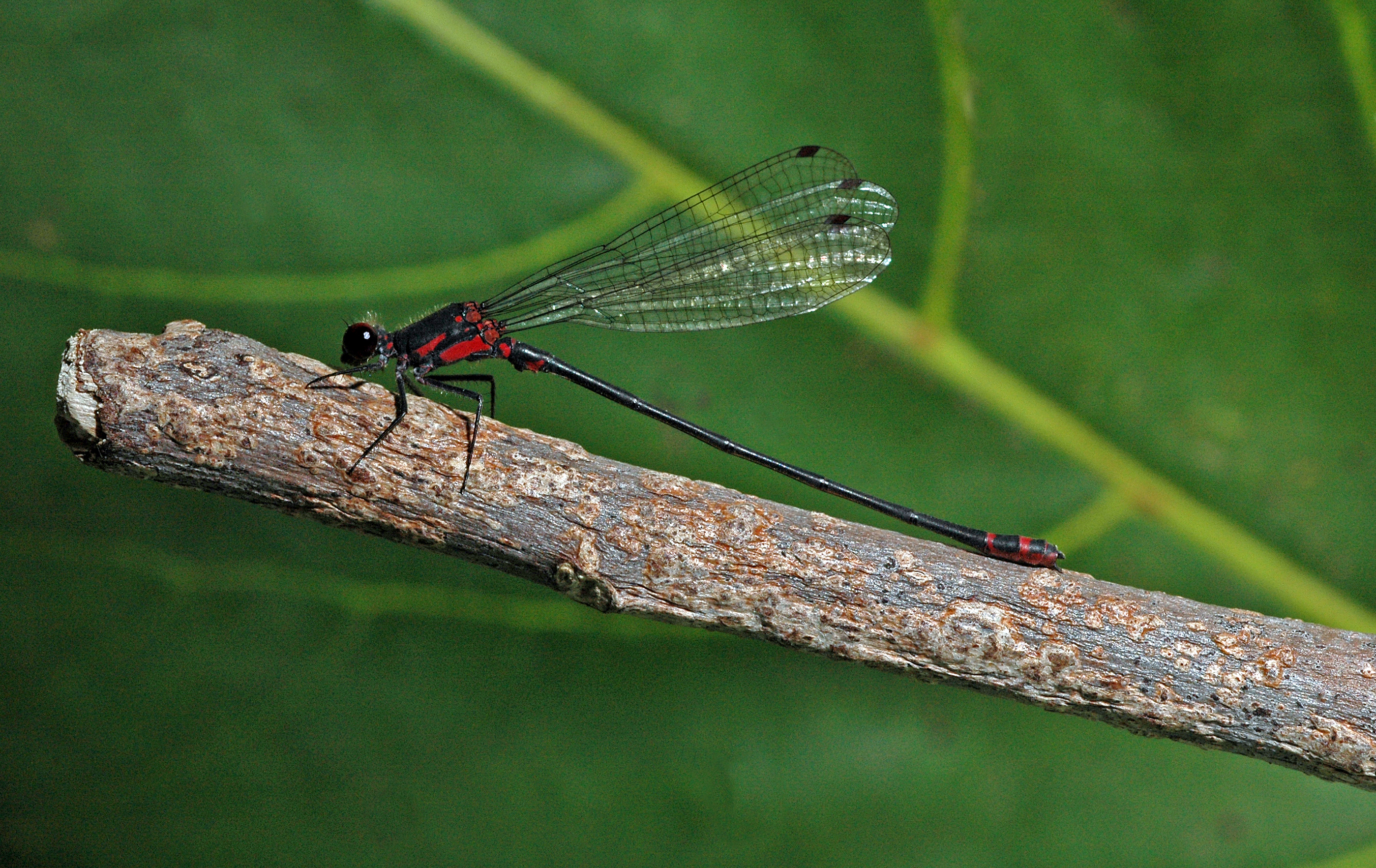 Endangered Pacific Hawaiian damselfly (Megalagrion pacificum). Photo credit: Dan Polhemus/USFWS